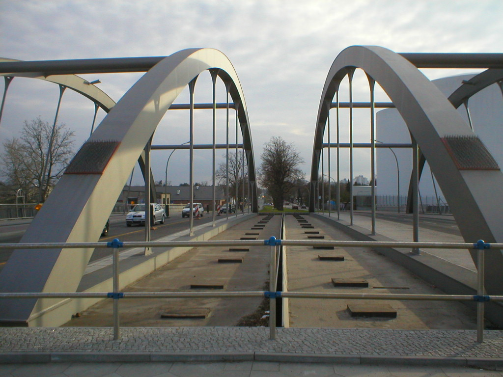 The new Massantebrücke at Stubenrauchstraße in Berlin-Johannisthal with space left for a future tramway-track